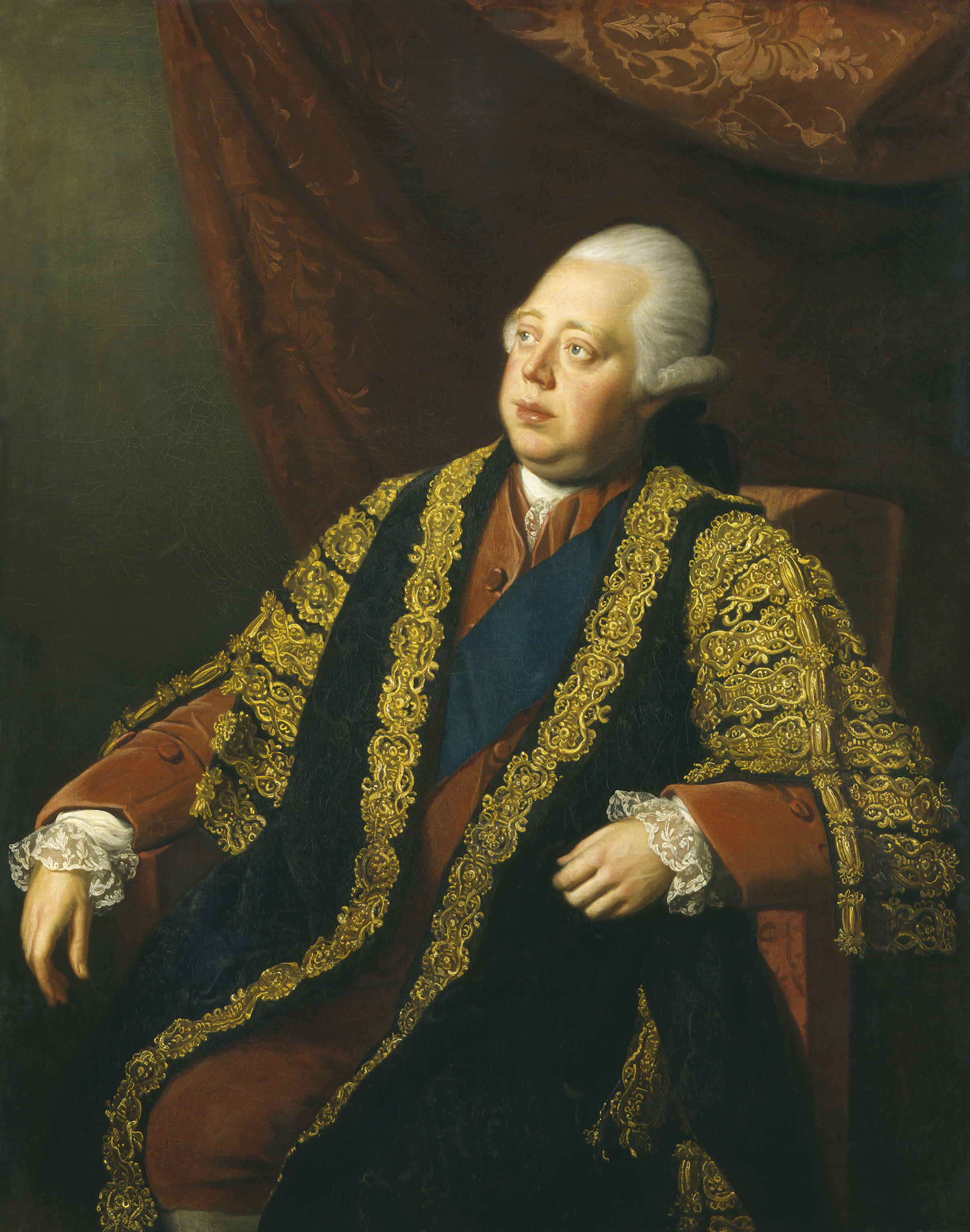 Portrait of Frederick North (1732–1792)